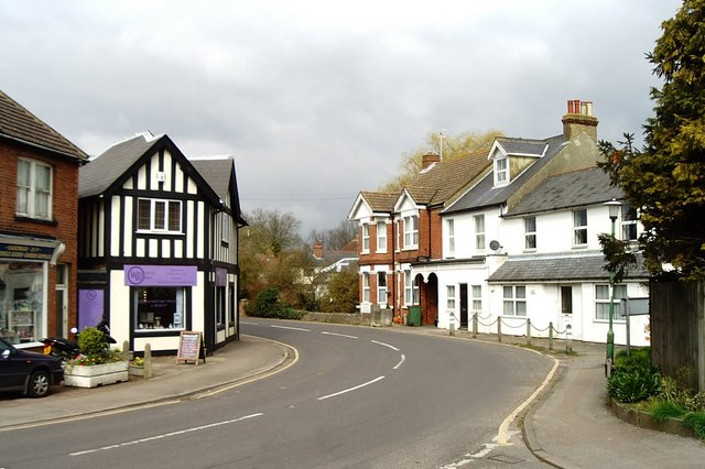 Lyminge